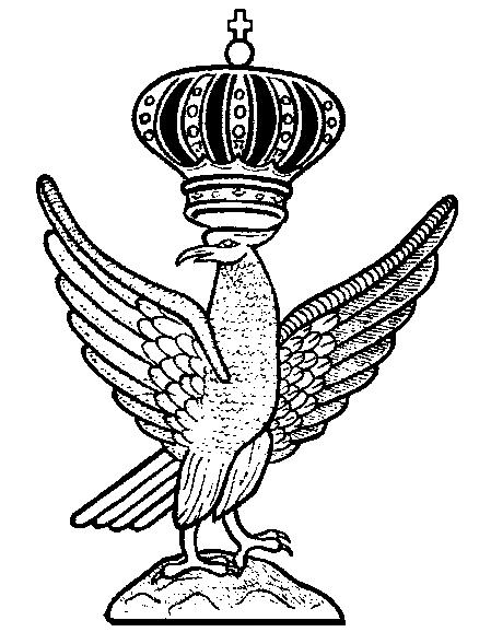 Badge of a Knight of St John the Evangelist (Masonic Order).